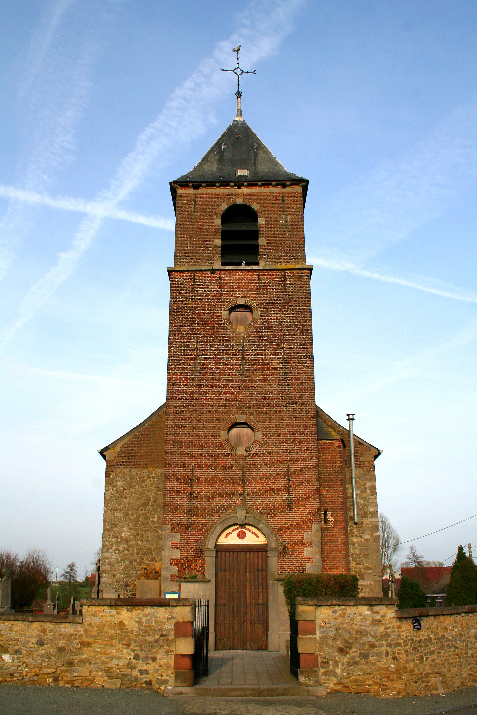 Gibecq (Belgium), Peter’s church (1743).